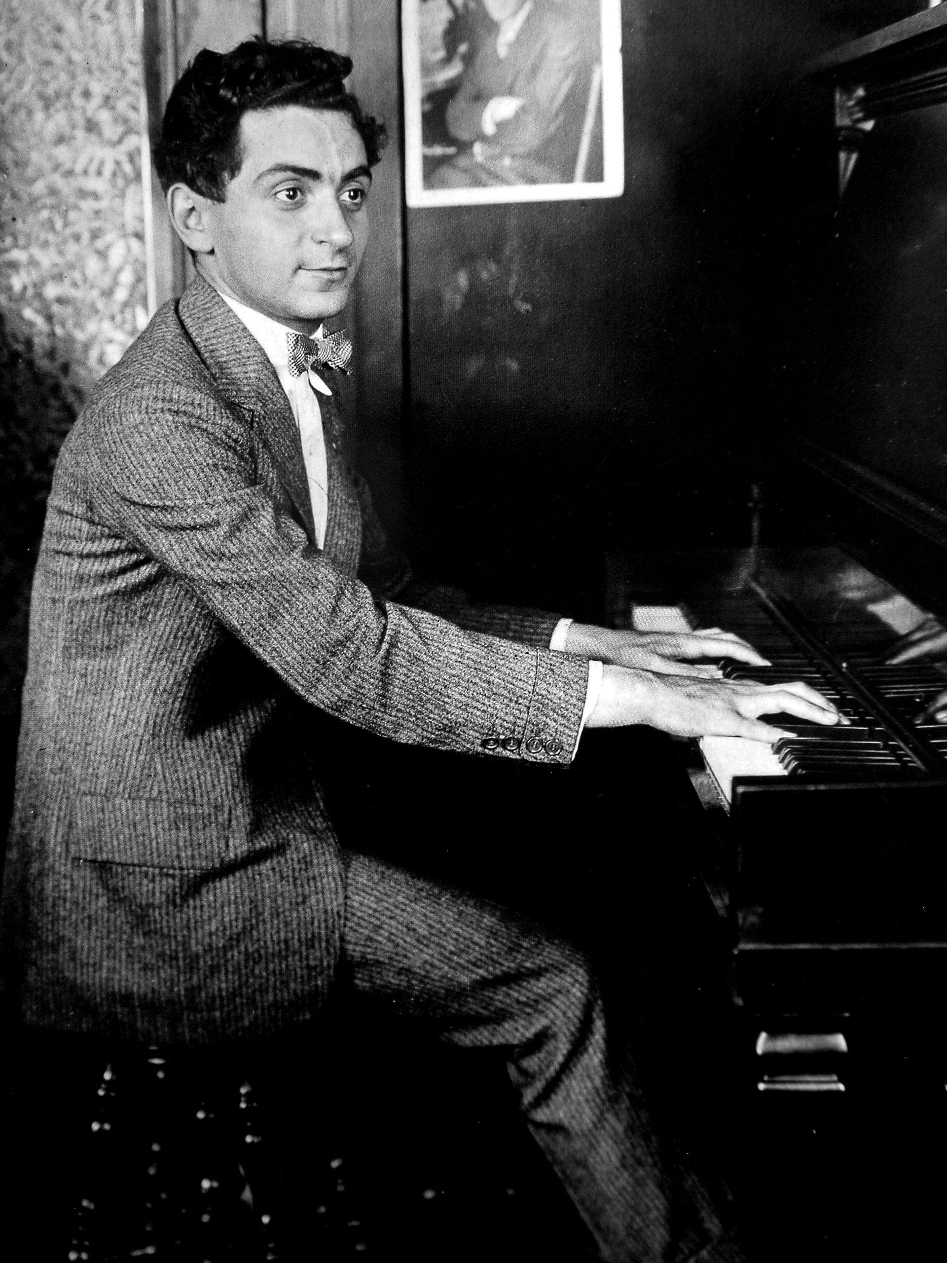 Publicity photo of Irving Berlin taken by his early music publishing company for promotion.